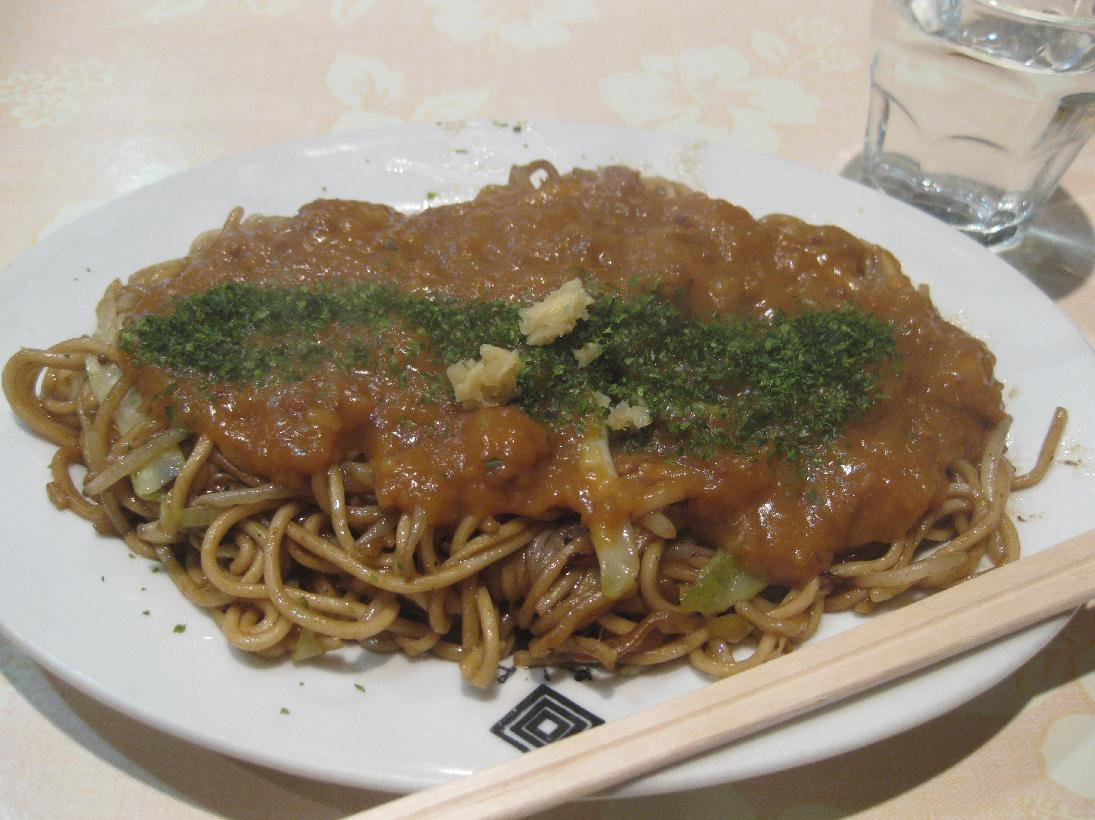 Italian yakisoba in Nagahama, Shiga